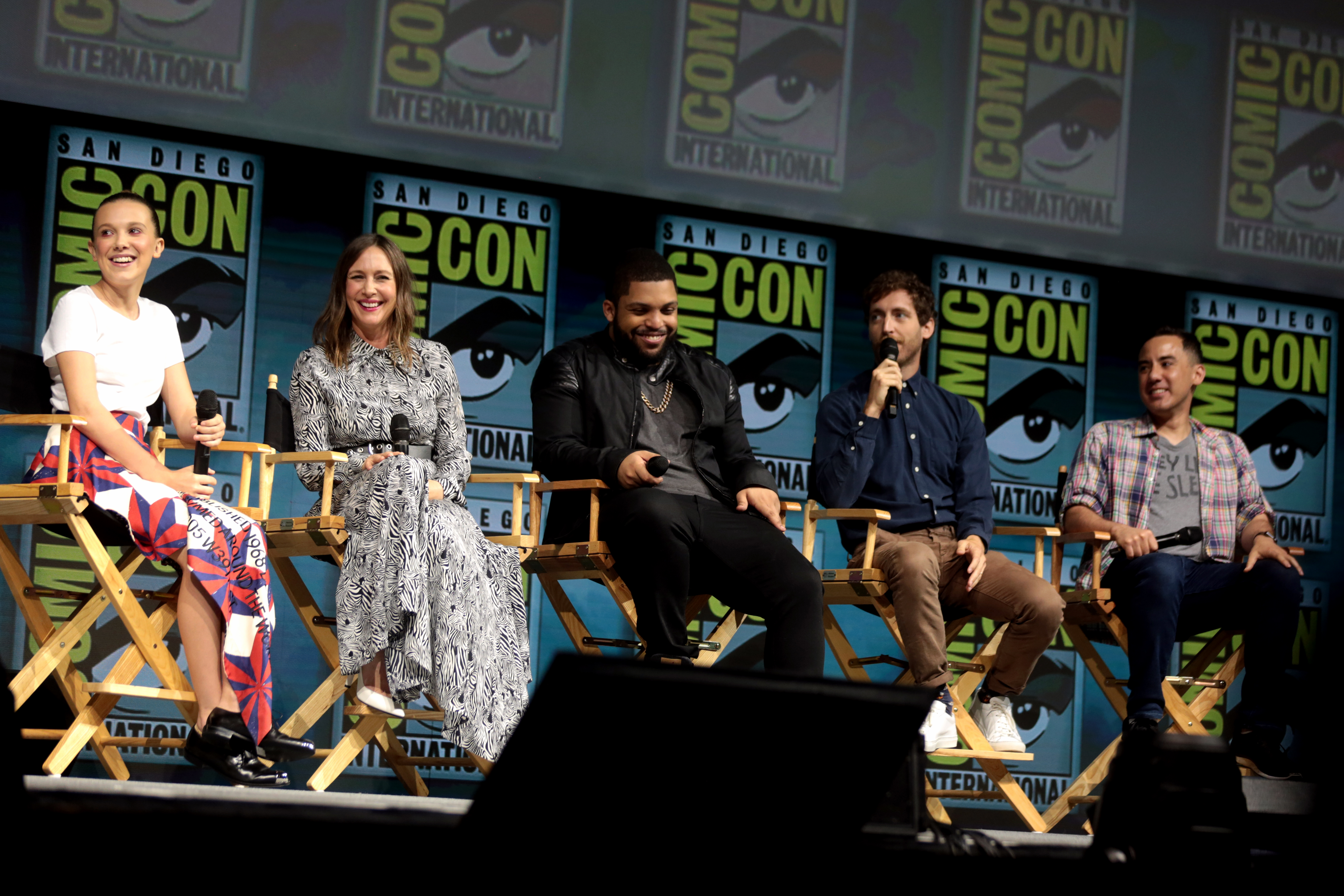 Millie Bobby Brown, Vera Farmiga, O'Shea Jackson Jr., Thomas Middleditch and Michael Dougherty speaking at the 2018 San Diego Comic Con International, for "Godzilla: King of the Monsters", at the San Diego Convention Center in San Diego, California.